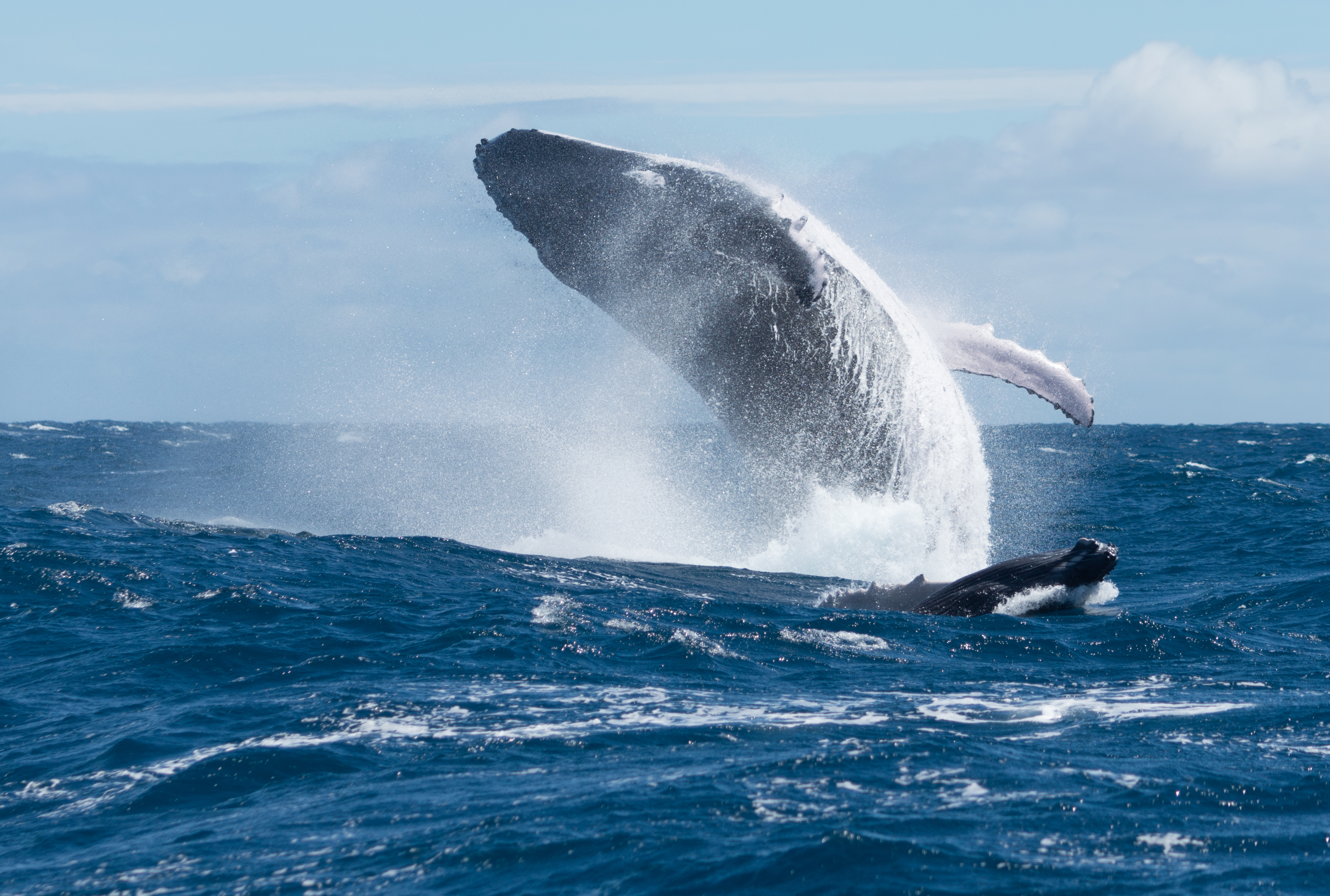 Humpback whale (Megaptera novaeangliae) near its whale calf, breaching off to keep away males. Taken offshore (Tahiti, French Polynesia).